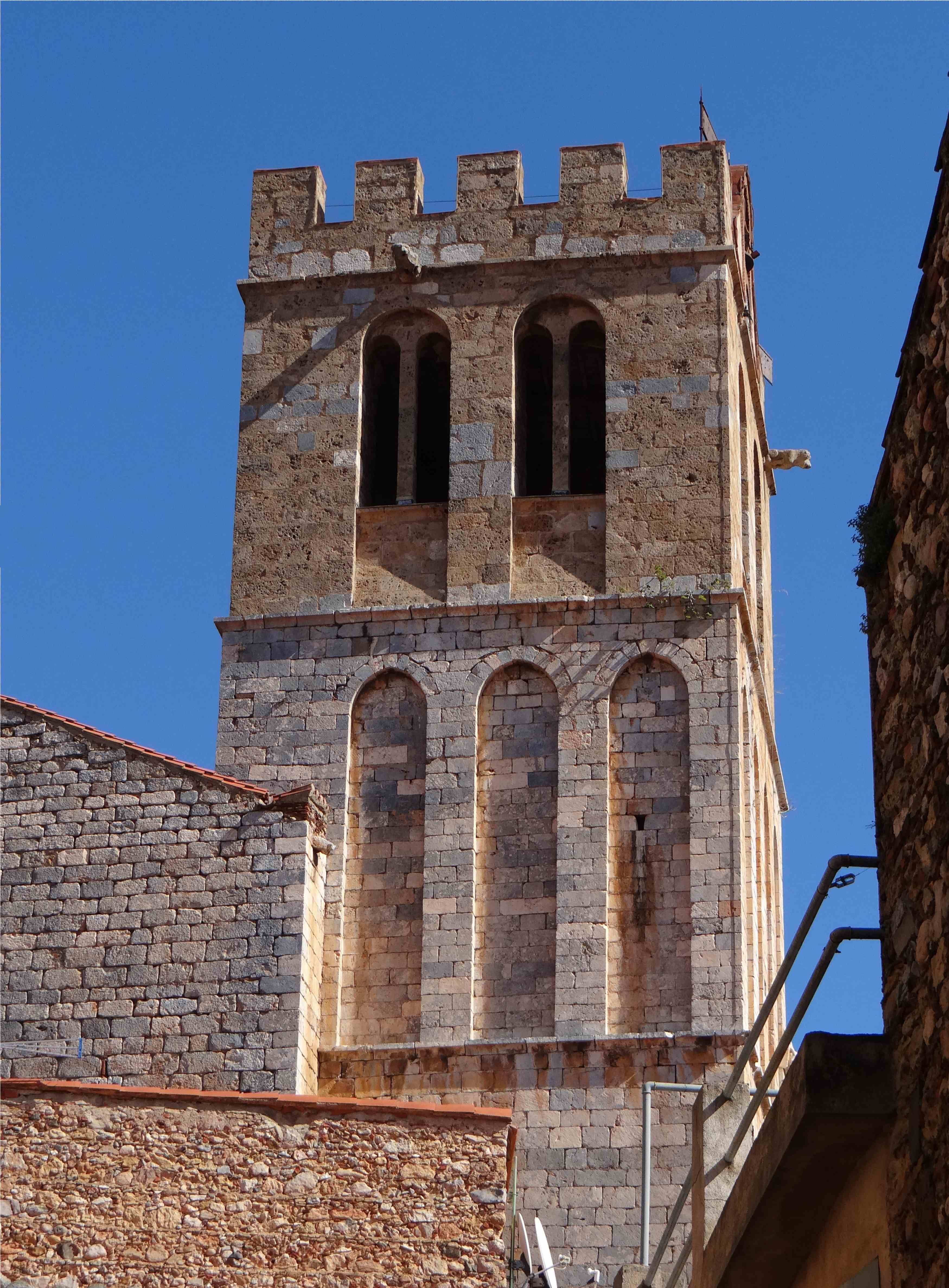 Bell tower of the Church of the Nativity of Our Lady of Baixas, Pyrénées-Orientales, France.